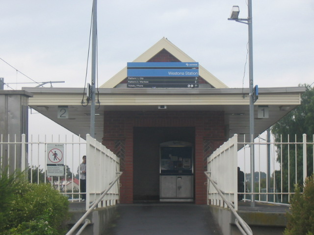 Entrance to Westona station.